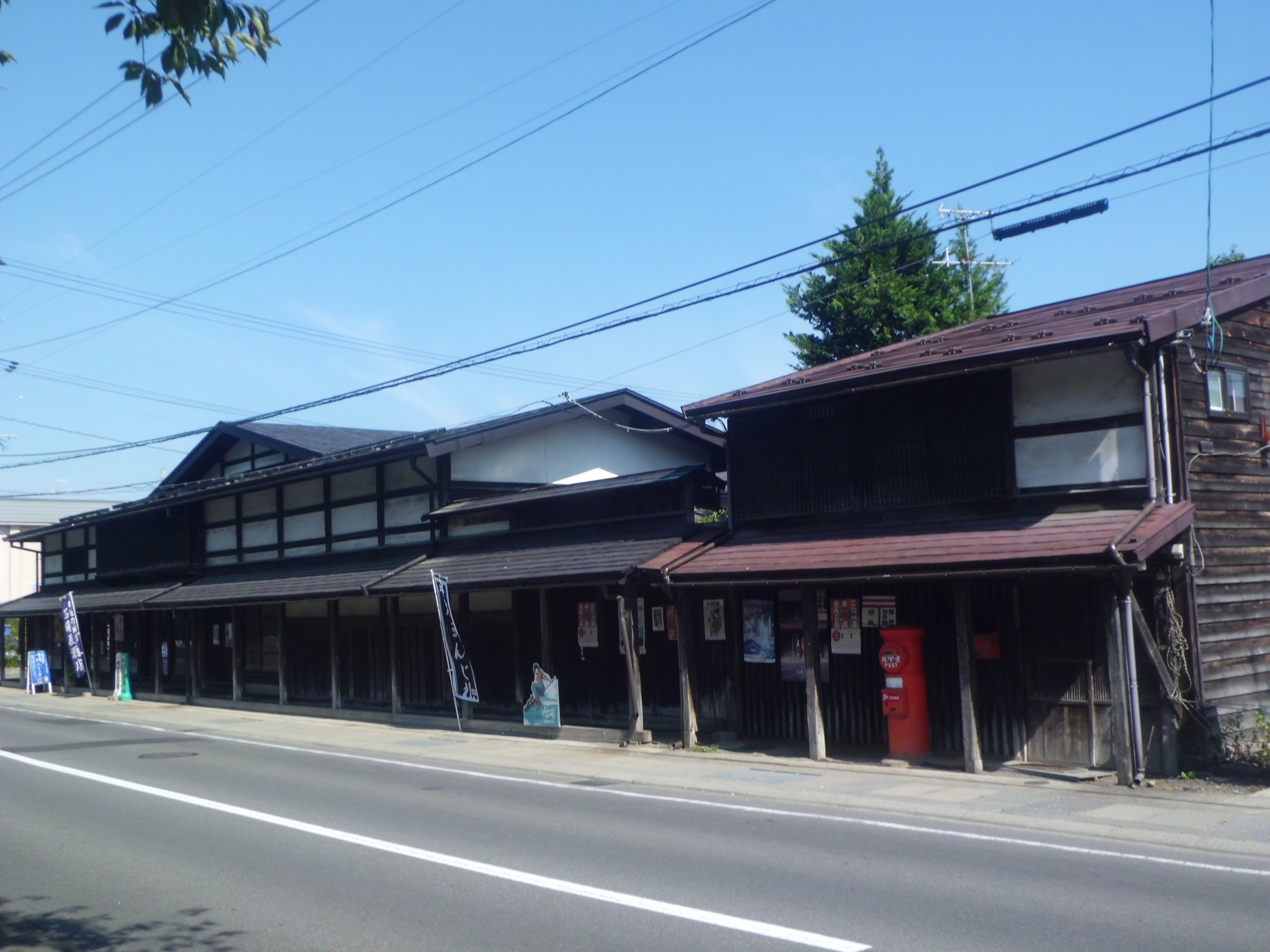 Ishiba's House